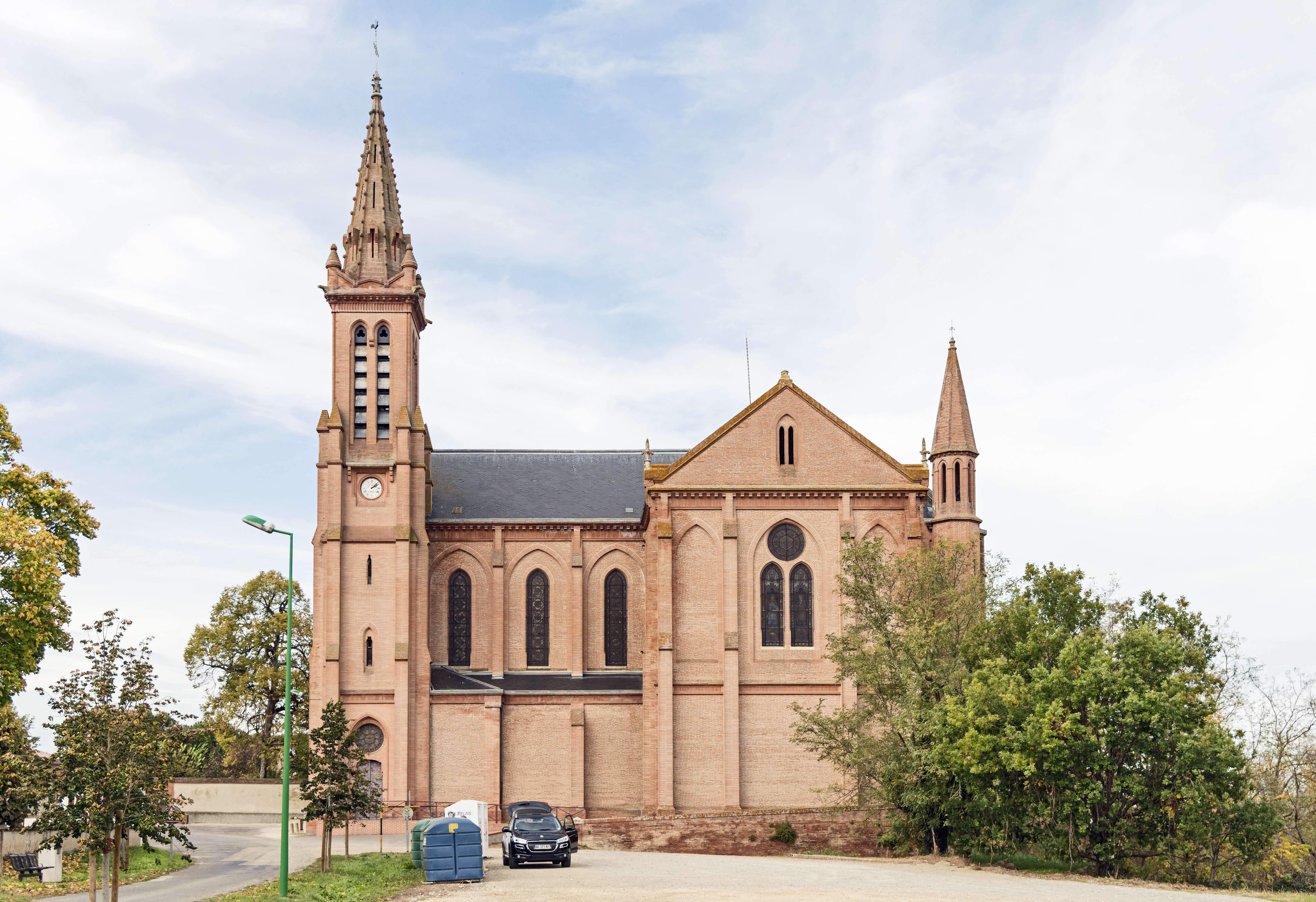 Notre-Dame de l'Assomption of Montbeton Architect: Henry Bach (1815-1899)